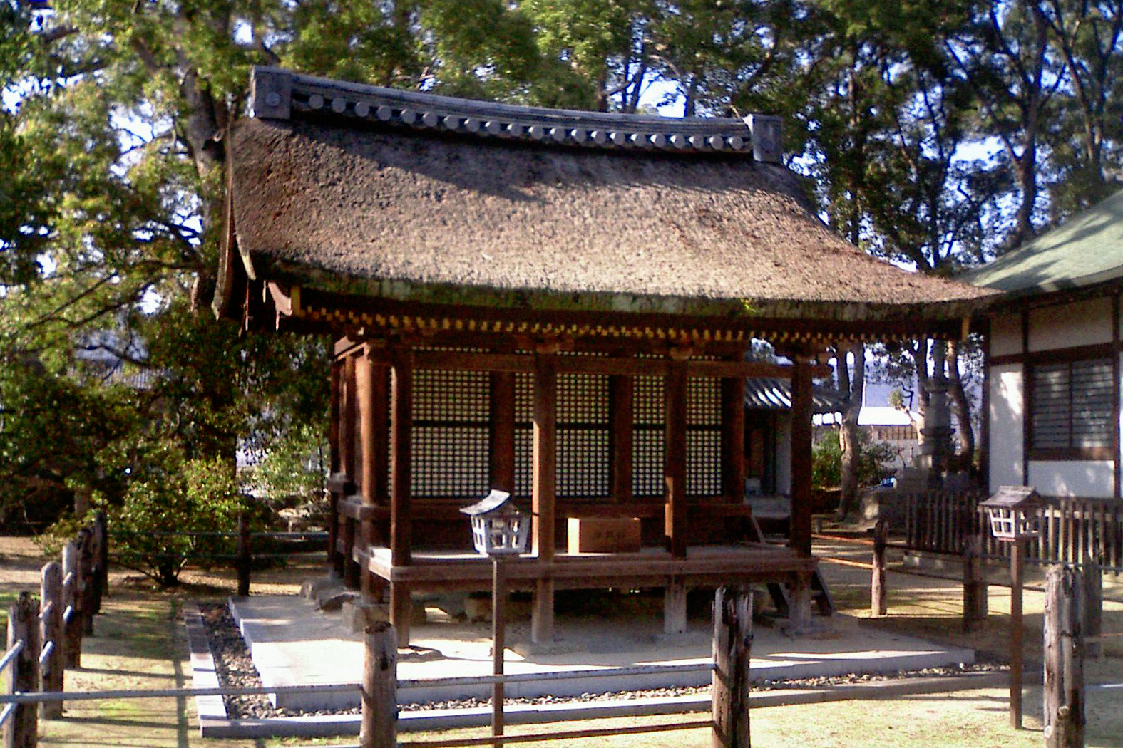 Motoyama-ji's Chinjyudou in Mitoyo, Kagawa prefecture, Japan.